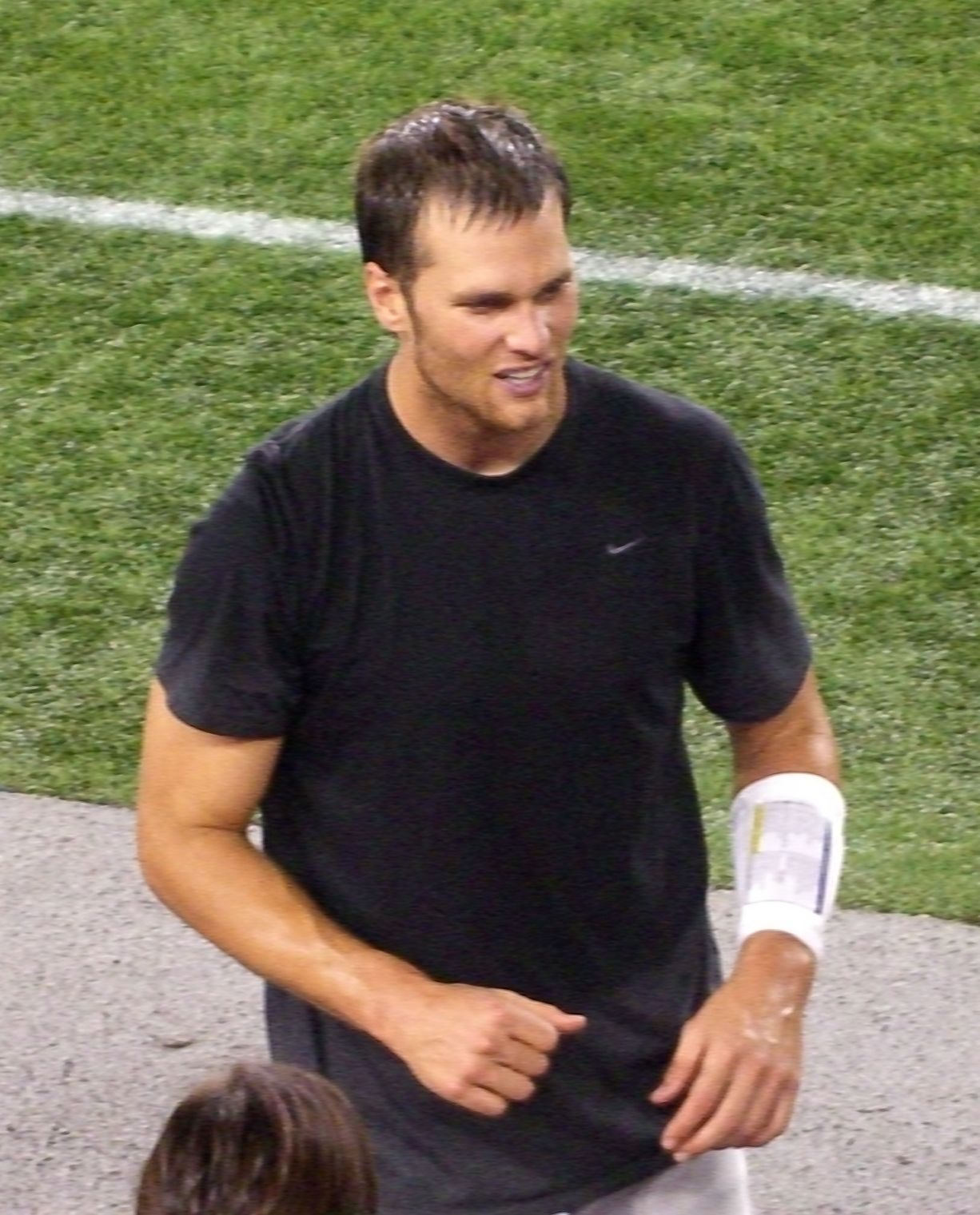 Tom Brady in a 2008 game.